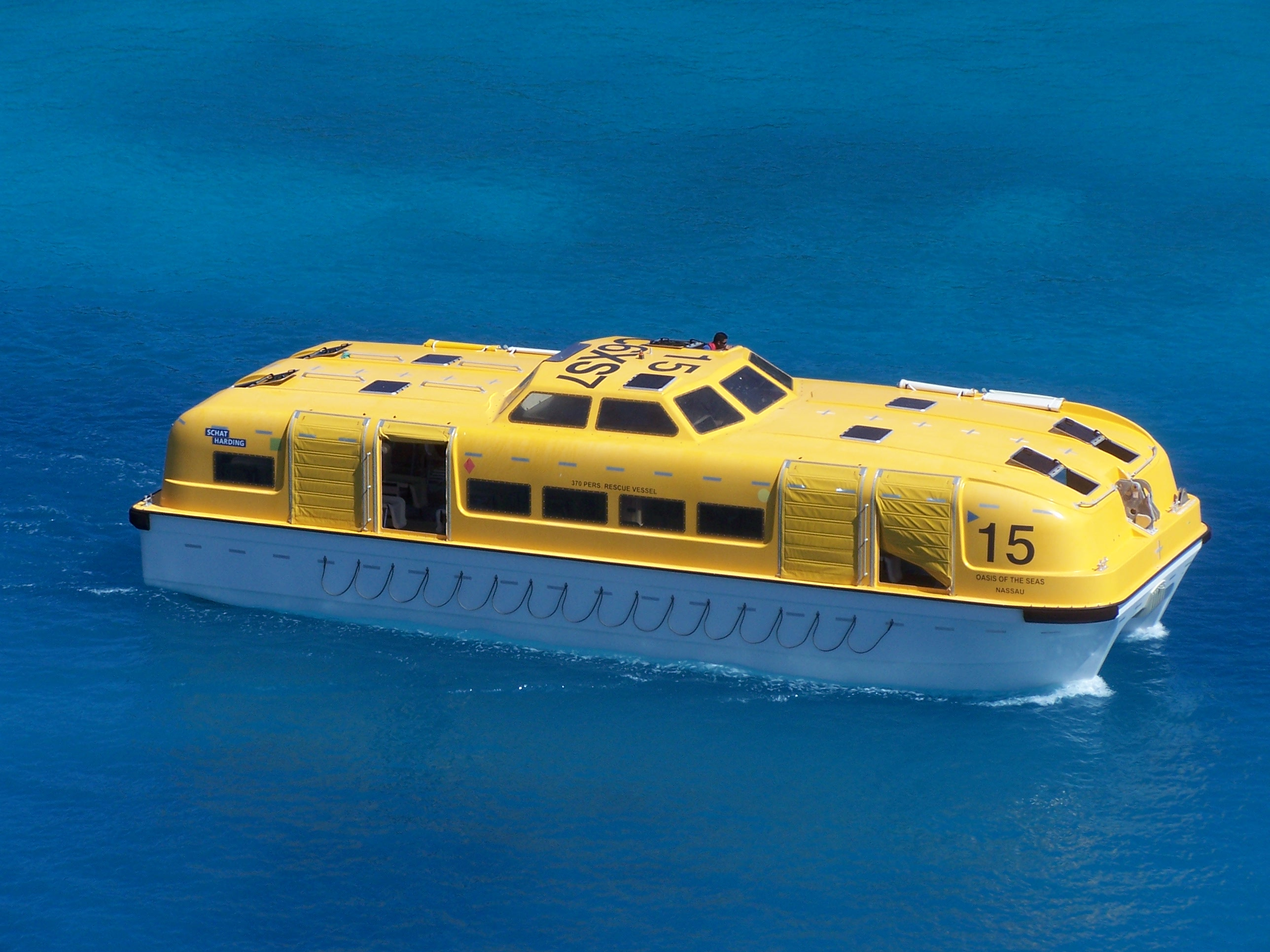 Oasis of the Seas Lifeboat